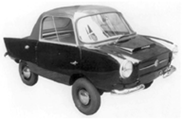 Meadows Frisky Coupe at the 1958 Earl's Court Motor Show